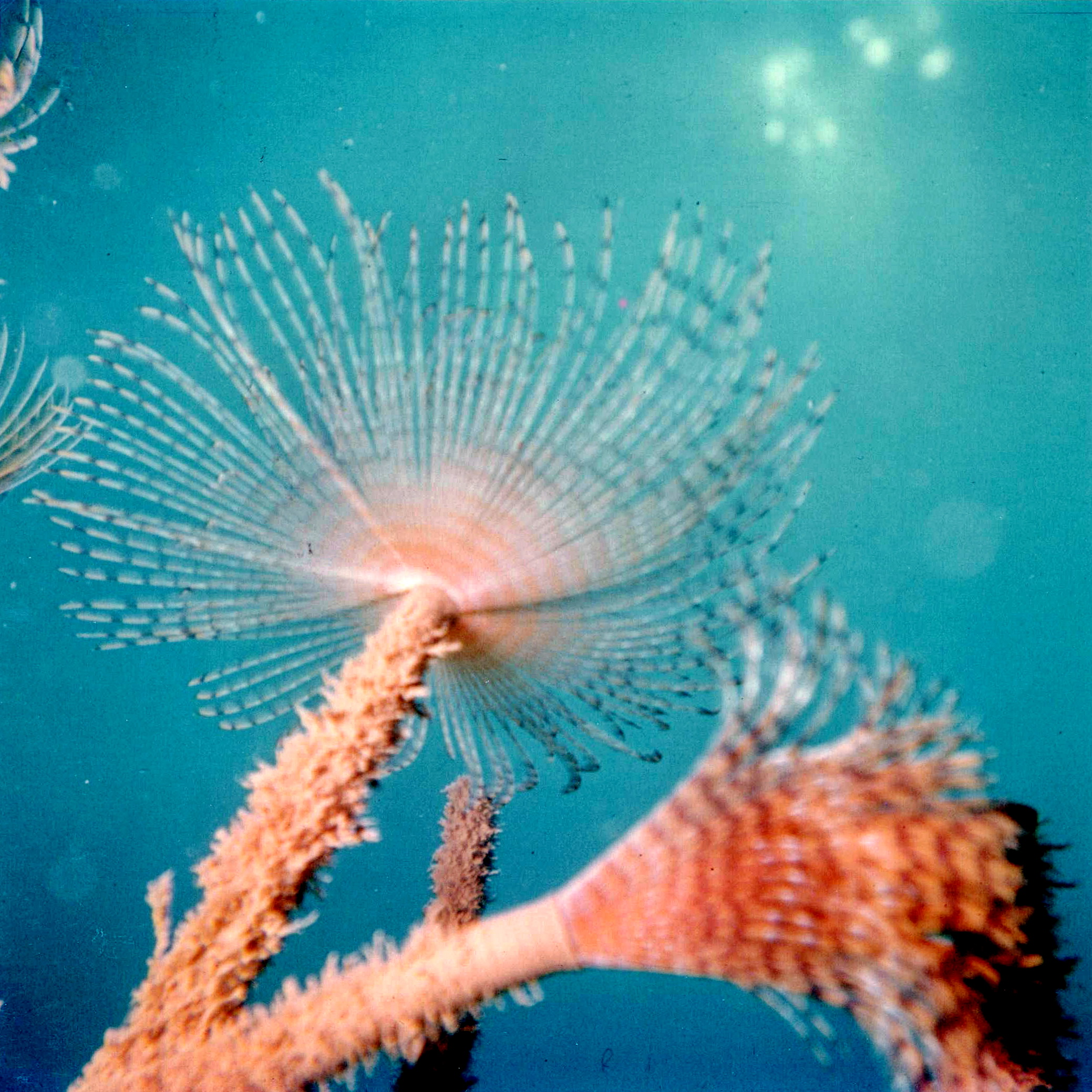 Spirographis_Spallanzanii